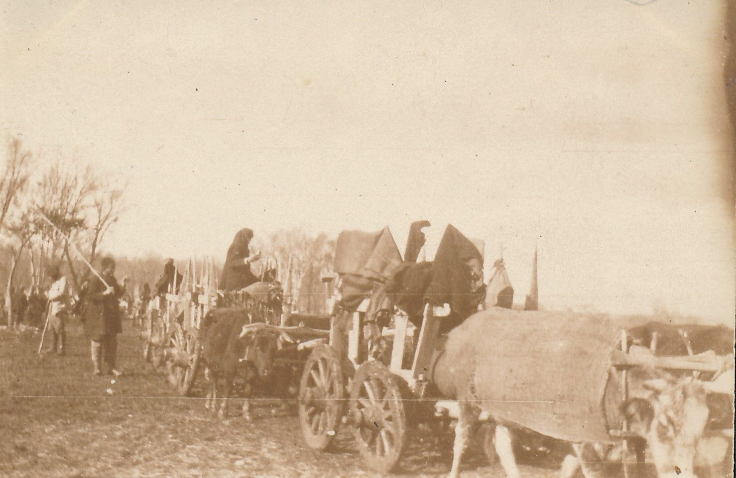 Sakulevo Peasants WWI